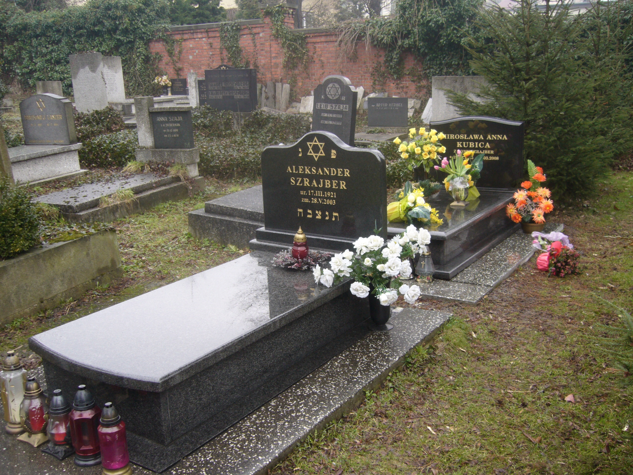 Modern graves on jewish cemetery in Bielsko-Biała.